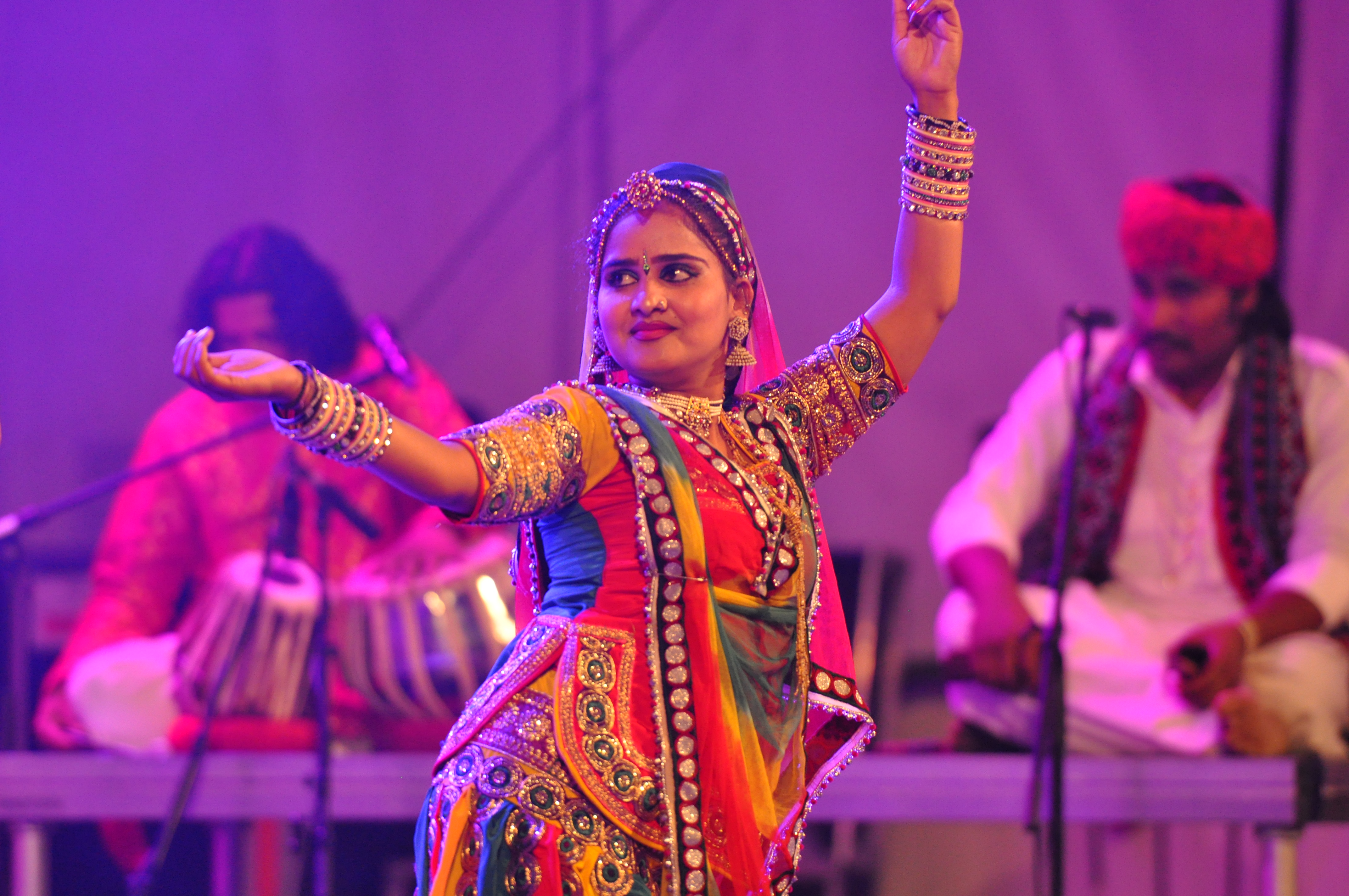 Bollywood Masala Orchestra (IN), appearance at the 12th World Music Festival "Horizonte" 2014 at the fortress of Ehrenbreitstein, Koblenz (Germany)